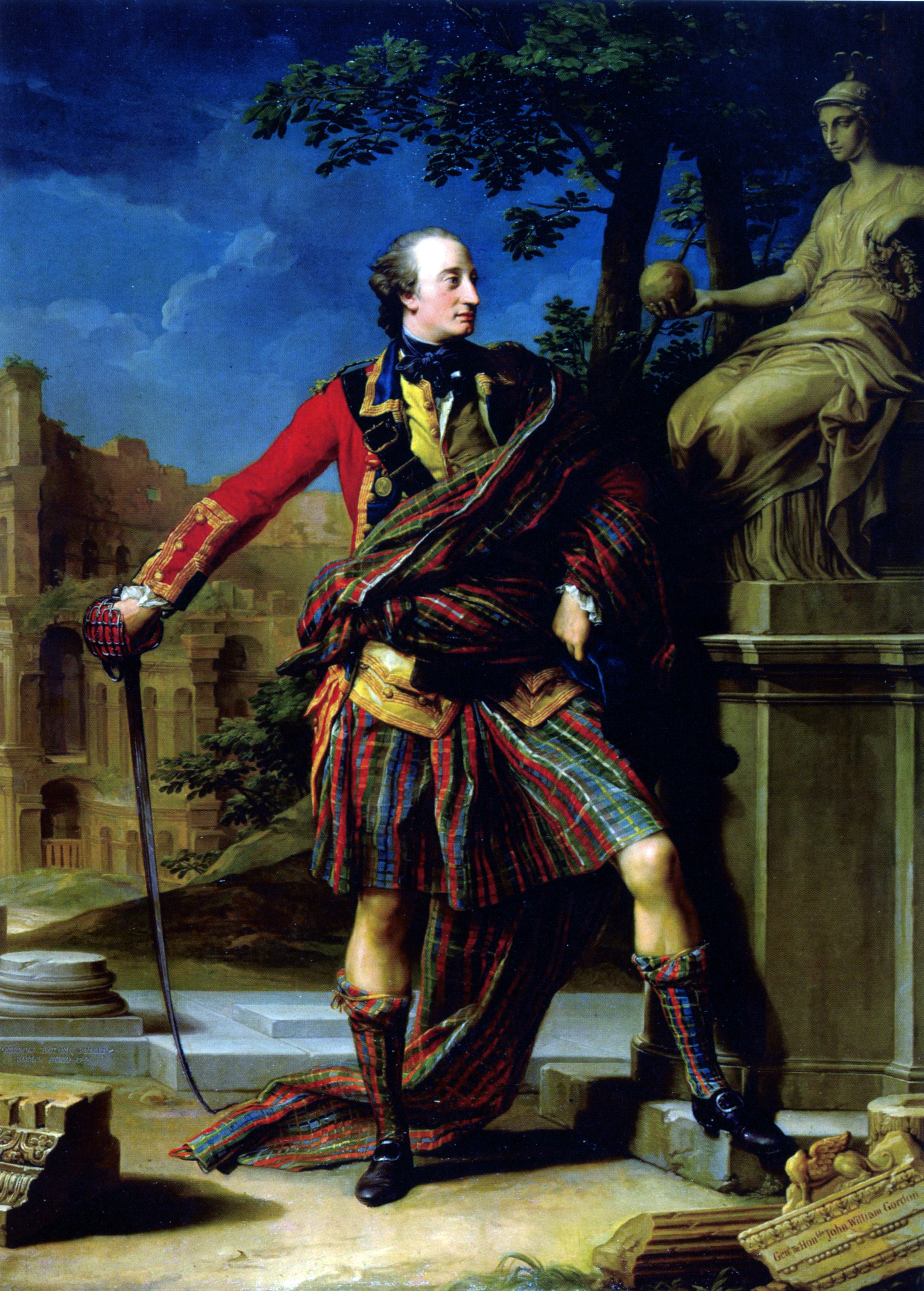 William Gordon (British Army officer)